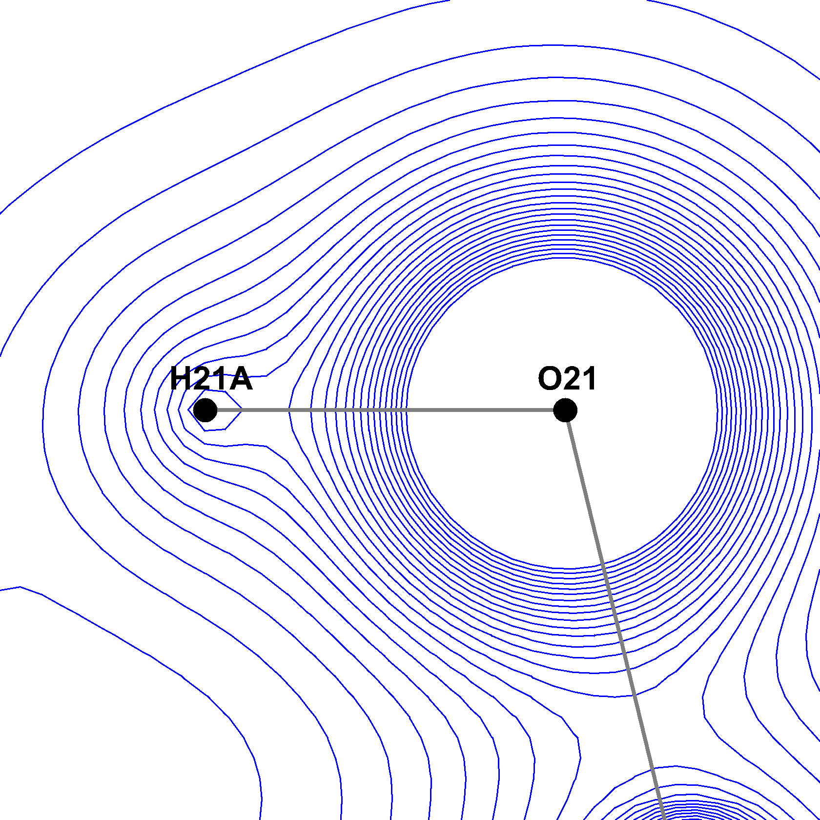 OH bond charge density resulting from Independent Atom Model refinement of doxycycline molecule, based of own data.